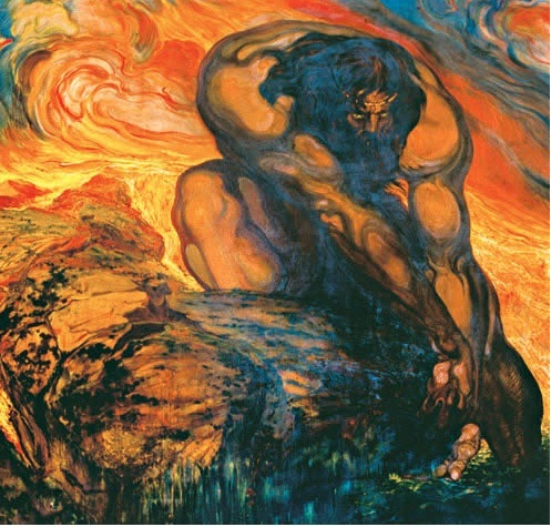 Hercules